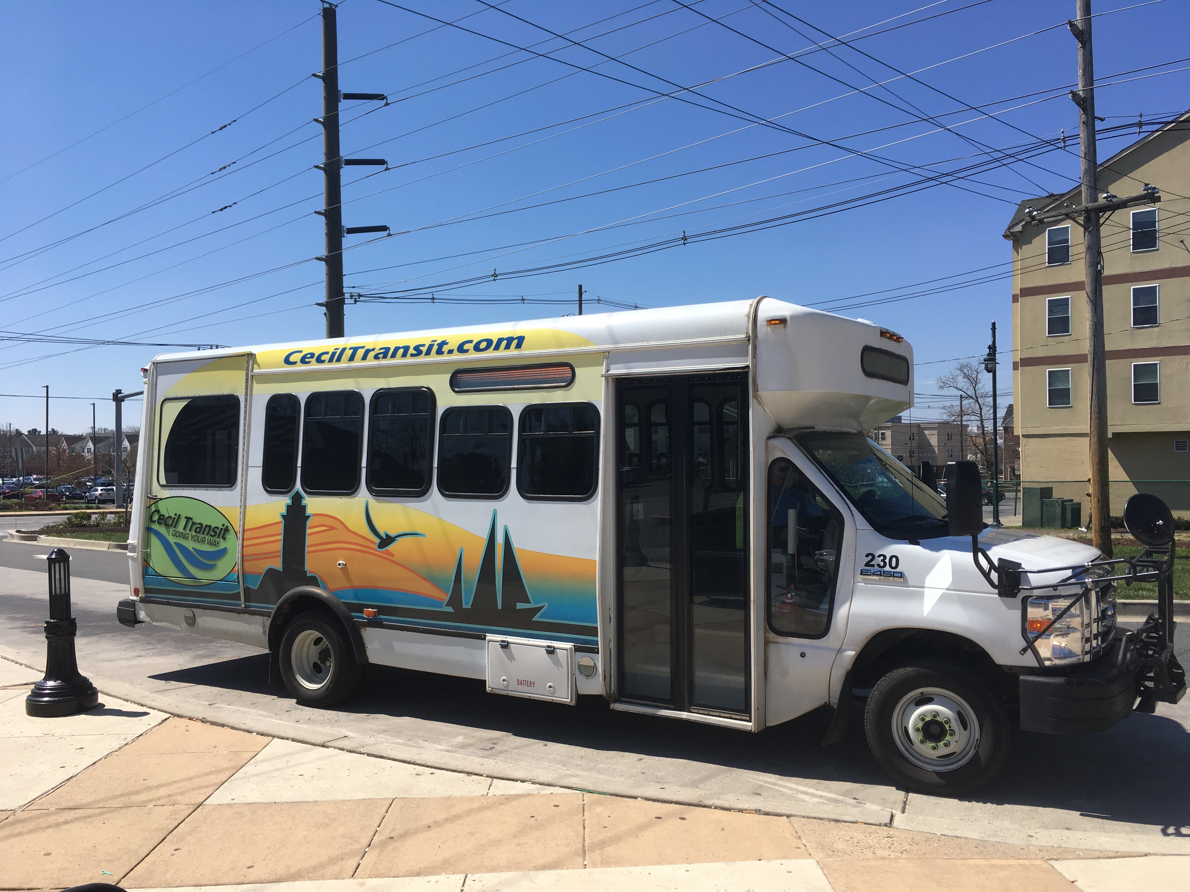 Cecil Transit Ford E-450 bus #230 on the Route 4 line at the Newark Transit Hub in Newark, Delaware